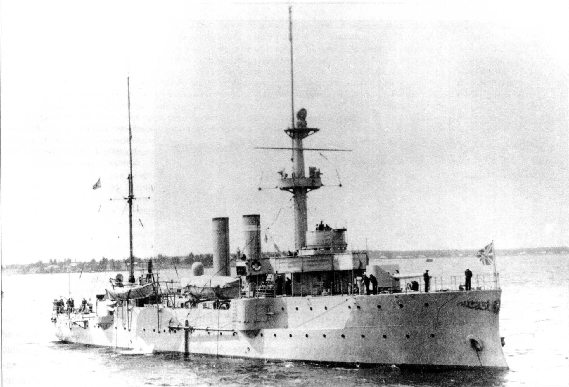 Imperial Russian gunboat Koreets (II).